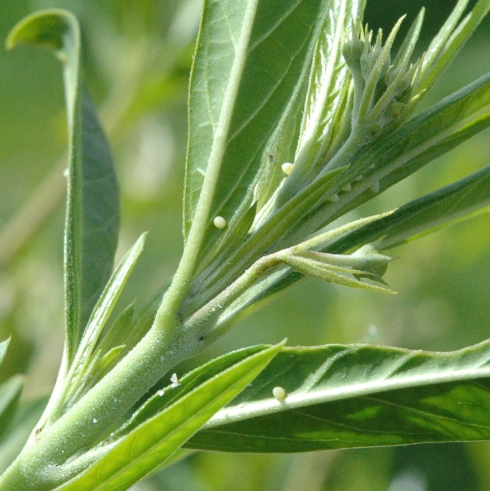 Monarch Butterfly Eggs on Gomphocarpus physocarpus (Swan Plant)